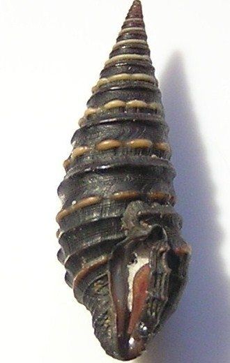 Zonulispira chrysochildosa Shasky, 1971 , a turrid snail from the family Pseudomelatomidae; Panama